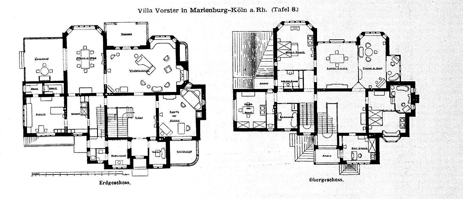 Villa Vorster in Marienburg-Köln am Rhein Tafel 8, Grudriss.jpg